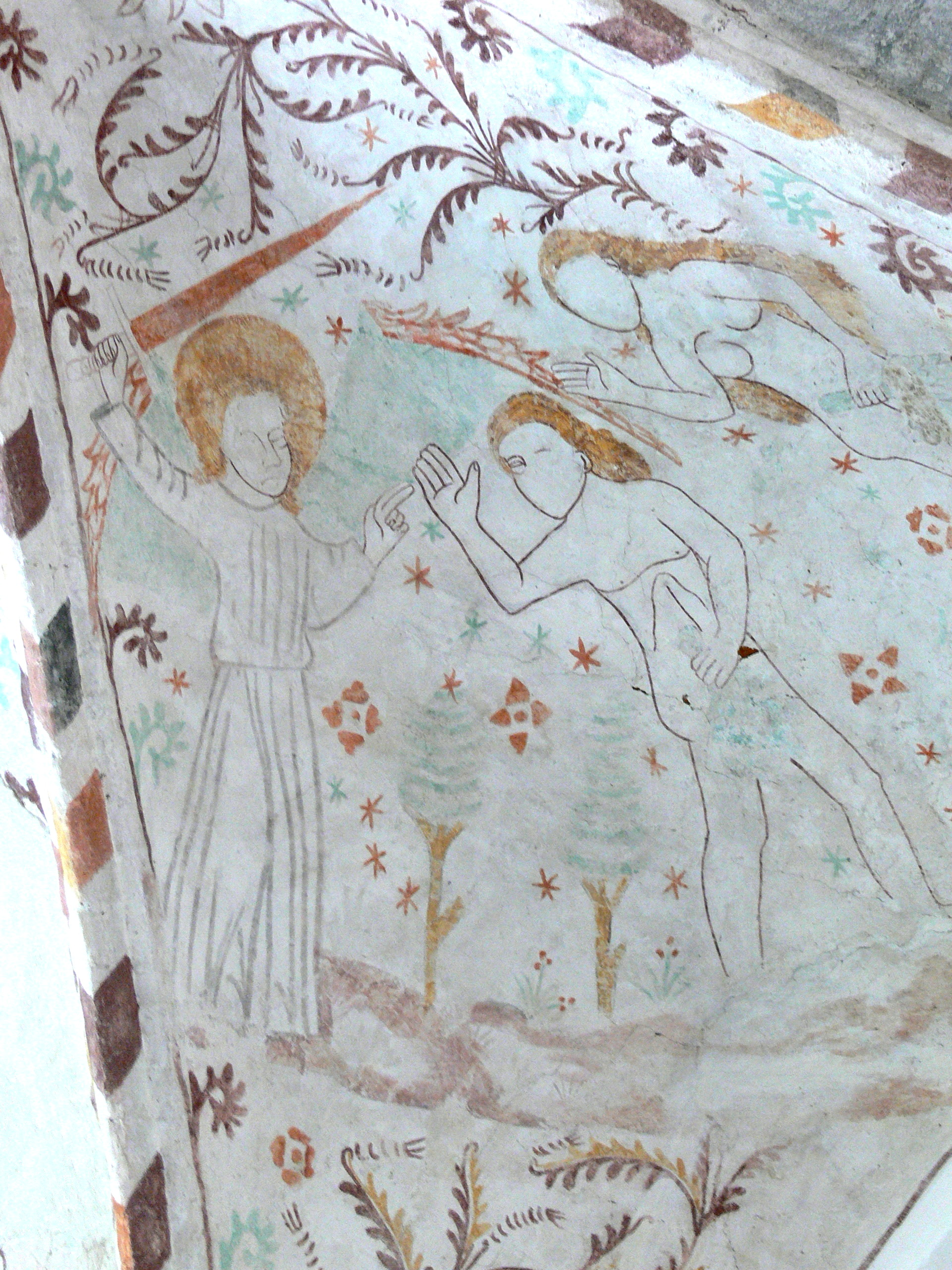 Nørre Alslev church. Frescos of the Master of Elmelunde ( 14th century ): Expulsion of Adam and Eve